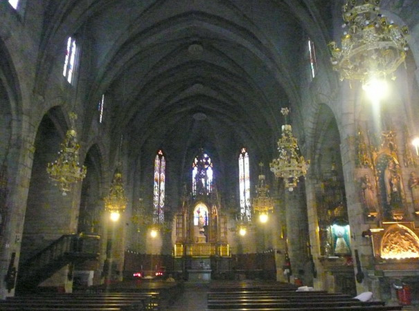 La Concepció church (Jonqueres monastery) in Barcelona.